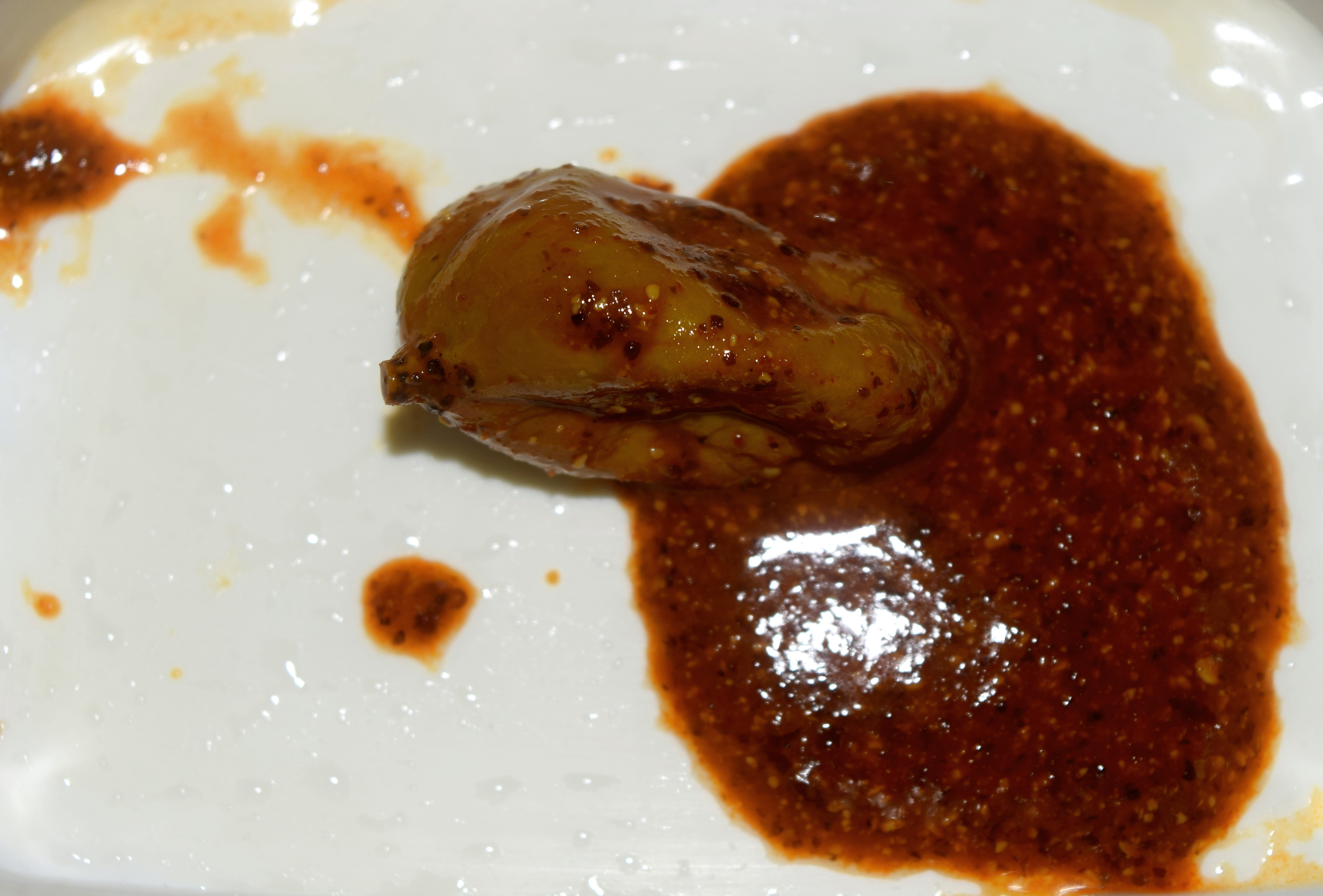 Kadumanga - A Special Kind of mango pickle from Kerala, India. This is made from tiny mangos.